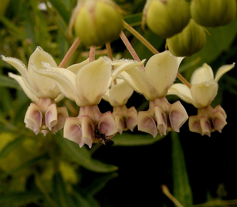 Gomphocarpus fruticosus